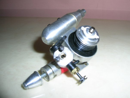 The rare Tee Dee .051 RC. It comes from factory with a muffler and a RC carburetor. Only 2000 of these were produced